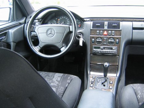 W210 Avantgarde 1998 interior